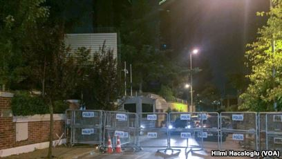 Consulate General of Saudi Arabia in Istanbul after killing of Jamal Khashoggi, Istanbul, Turkey.